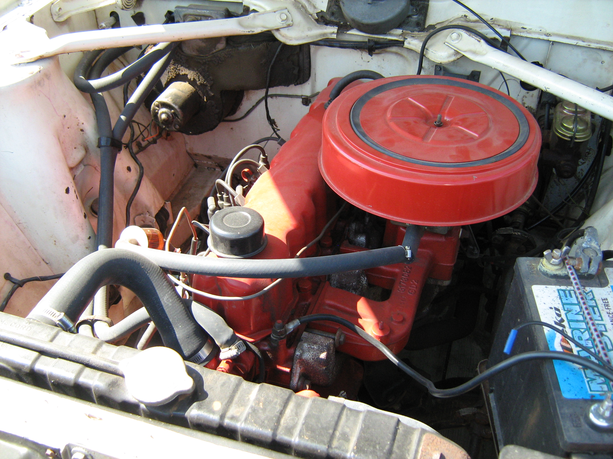 1966 Rambler Classic 770 convertible by American Motors Corporation (AMC). This car was for sale in "as is condition" on 25 September 2010 - View of the engine bay with the standard 232 cubic inch (3.8 L) straight-six cylinder engine from the left side with a replacement battery.